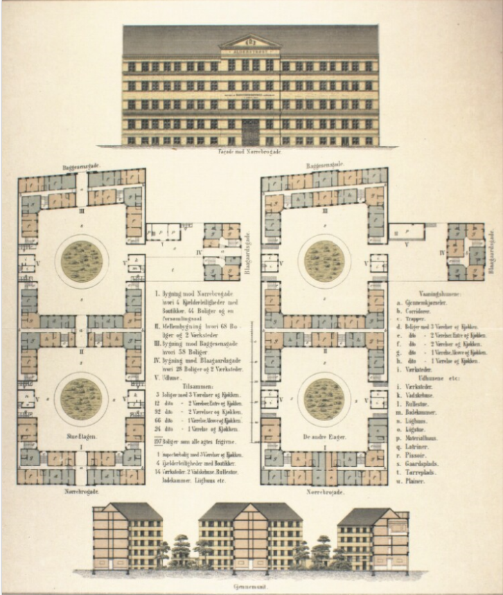 Rendering of Alderstrøst on Nørrebrogade in Copenhagen, Denmark